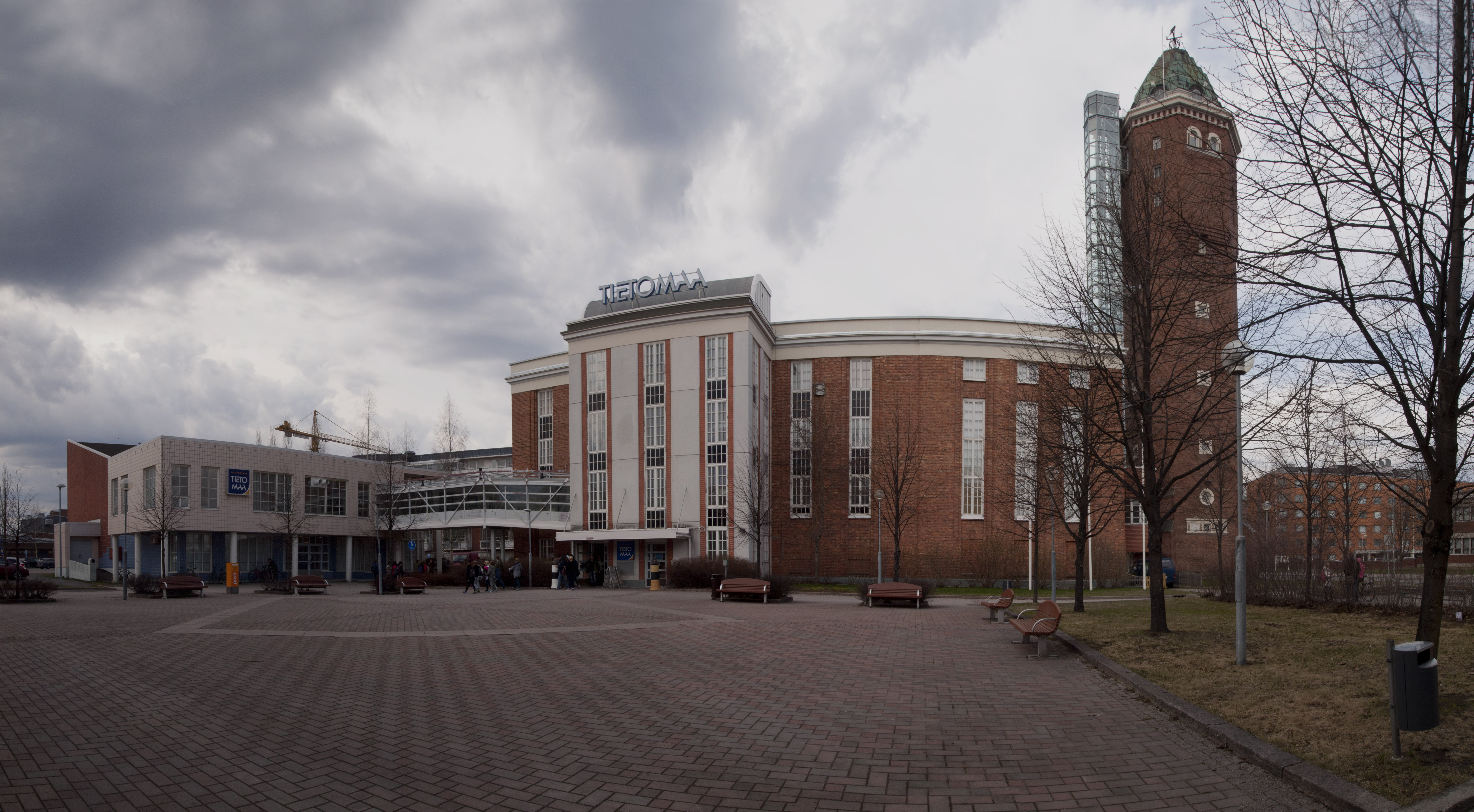 Tietomaa science museum at Oulu